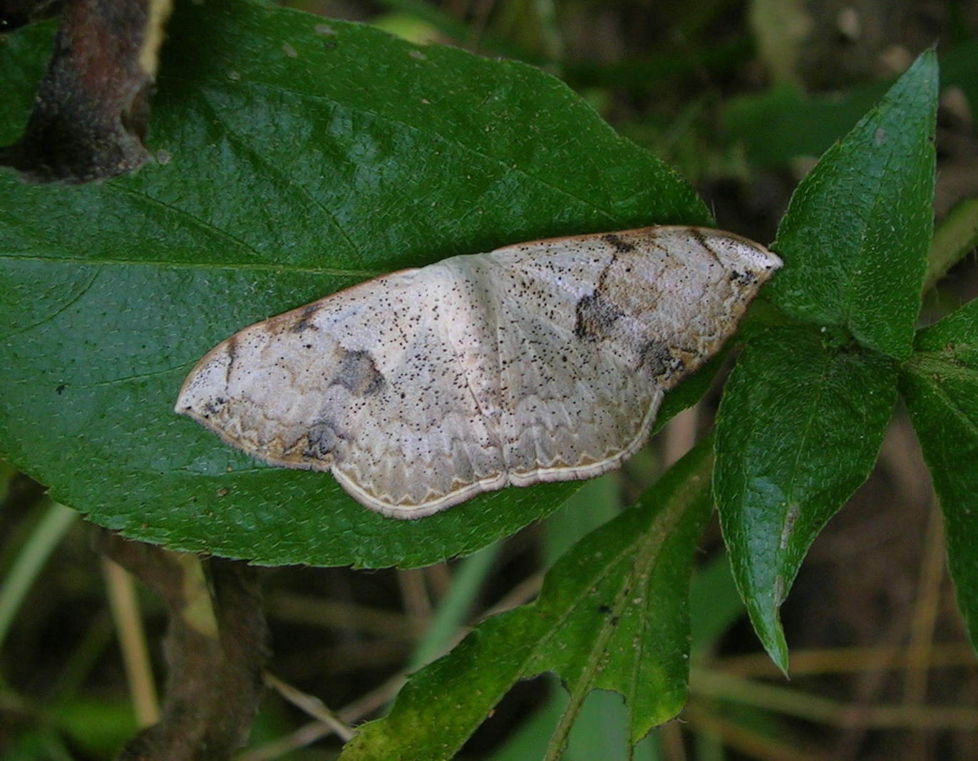 Moth from Savandurga (Somatina cf. plynusaria, Sterrhinae : determination courtesy Roger Kendrick )